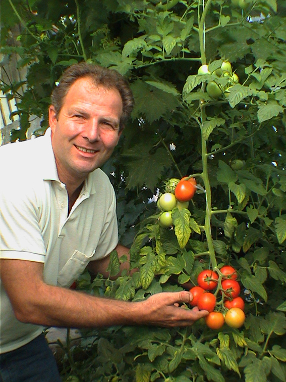 Fritz-Gerald Schröder near Solanum lycopersicum